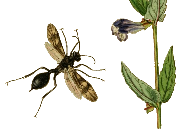 An illustration from British Entomology by John Curtis.Agriotypus armatus the Spined Agriotypus